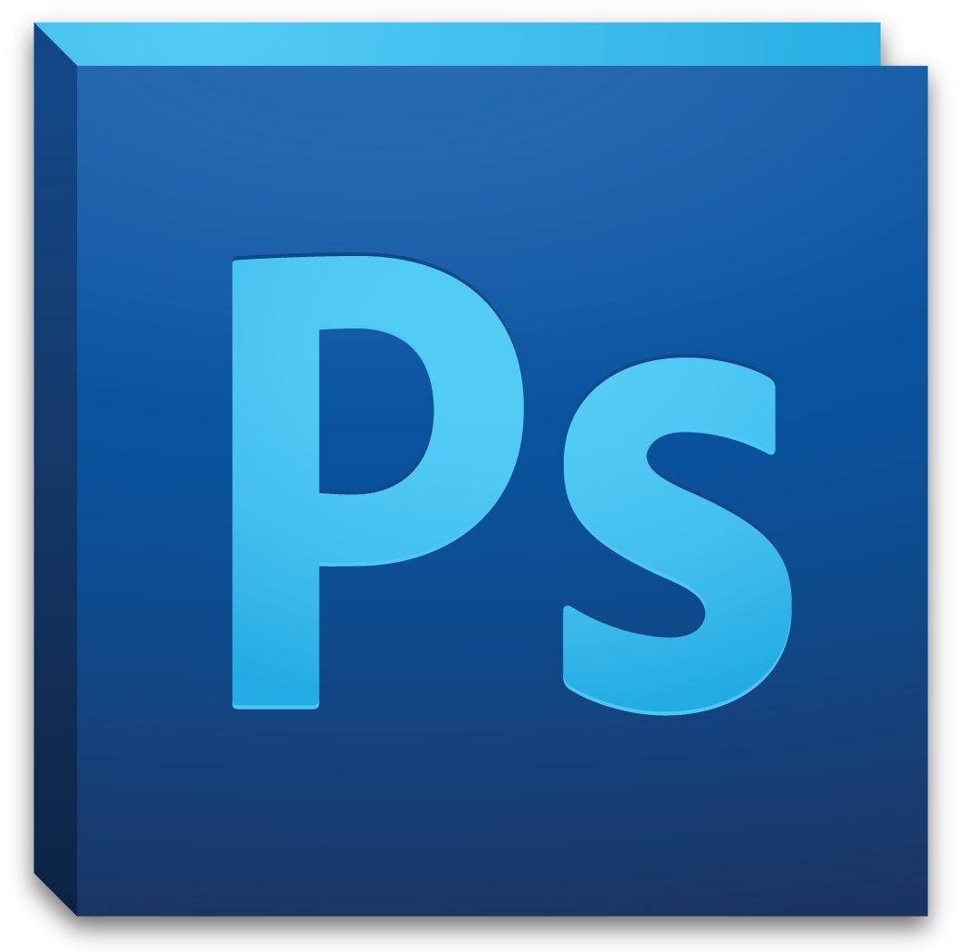 Computer icon of Adobe Photoshop CS5